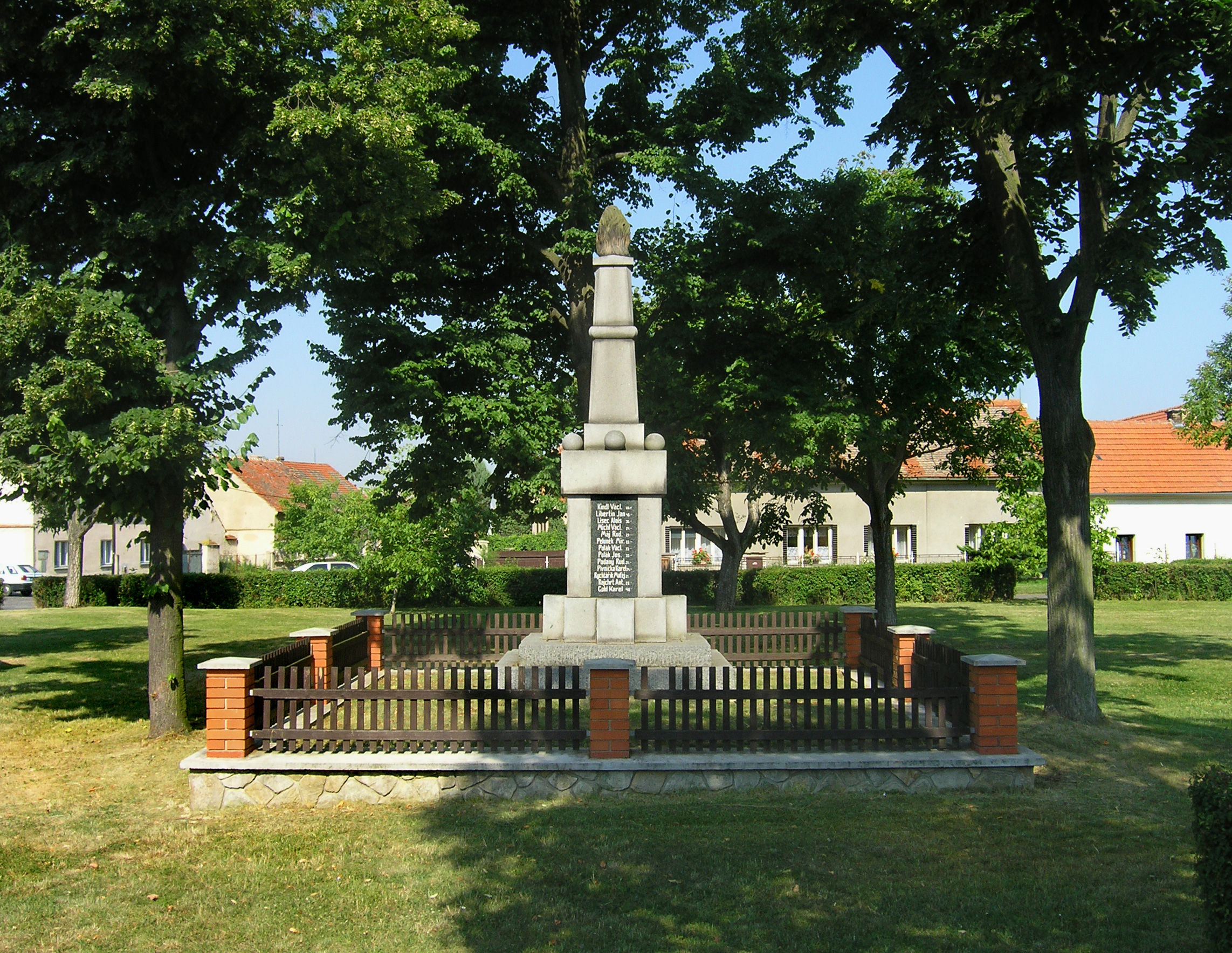 World War I. memorial in Pohořelice, part of Martiněves, Czech Republic